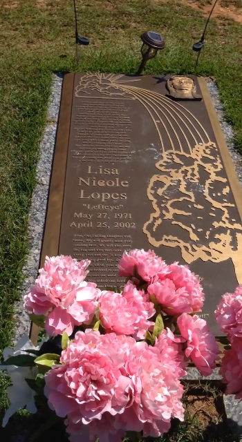 Lisa Nicole Lopes grave at Hillandale Memorial Gardens.